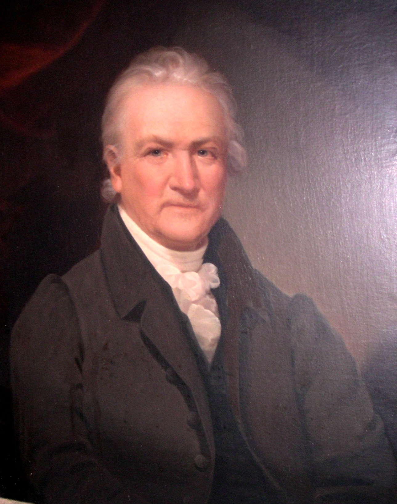 An oil on canvas portrait of Solomon Townsend by Ezra Ames (1768 – 1836) completed in 1808. Townsend was a Revolutionary War era ship captain, owner of an iron works, and was a New York State Legislator.